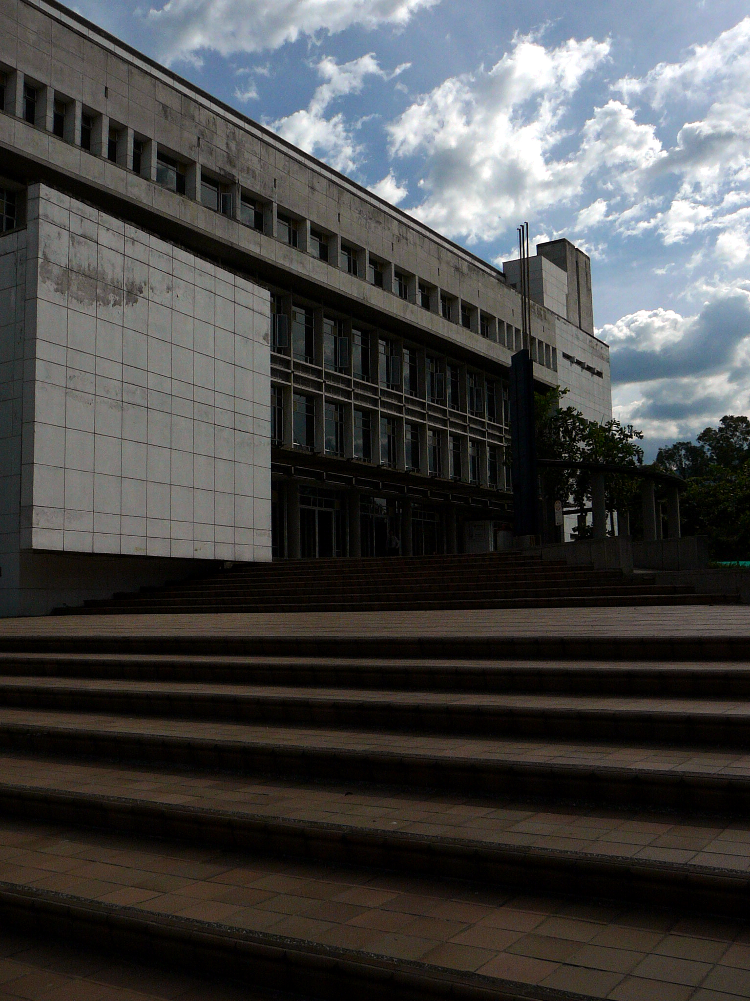 View of the main library on the main campus of the Pontifical Bolivarian University.